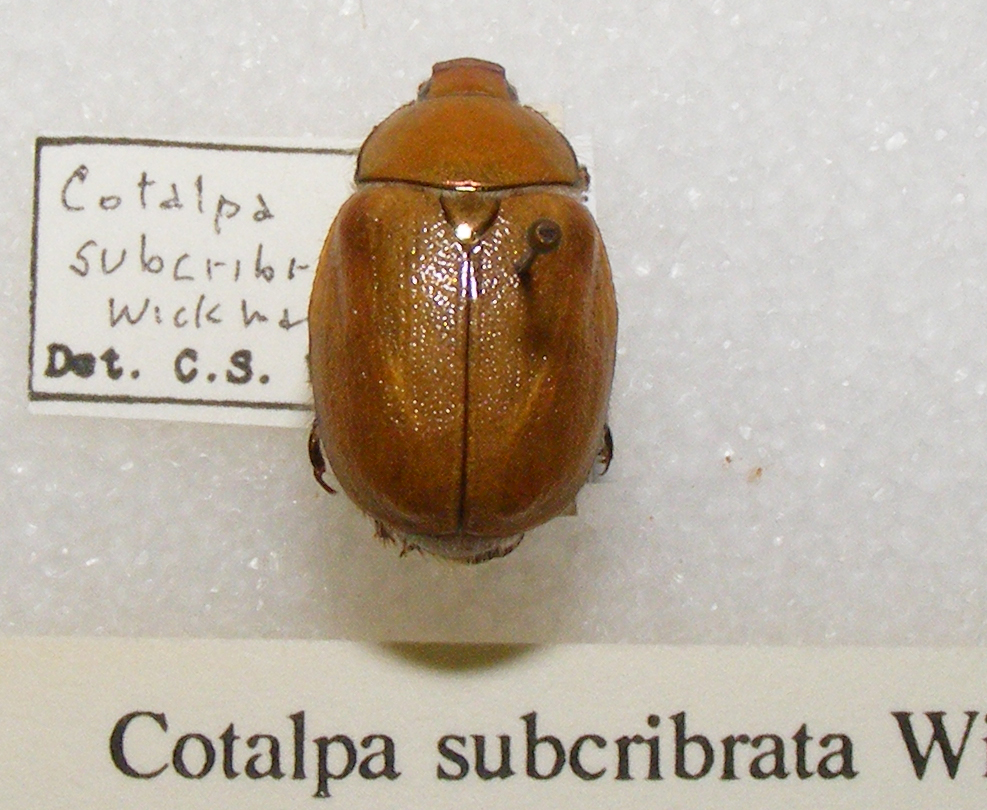 Cotalpa subcribrata adult from the Texas A&M University Insect Collection